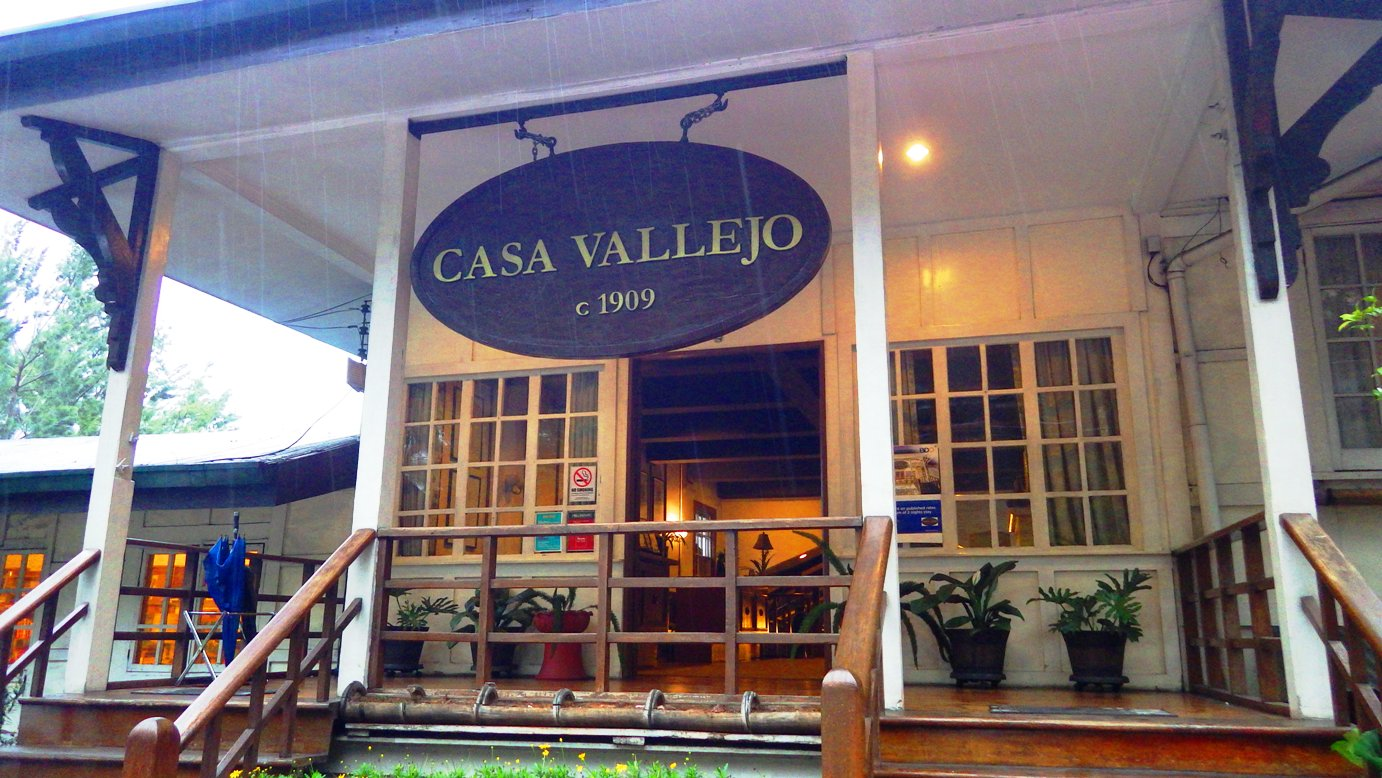 rainy day at Casa Vallejo